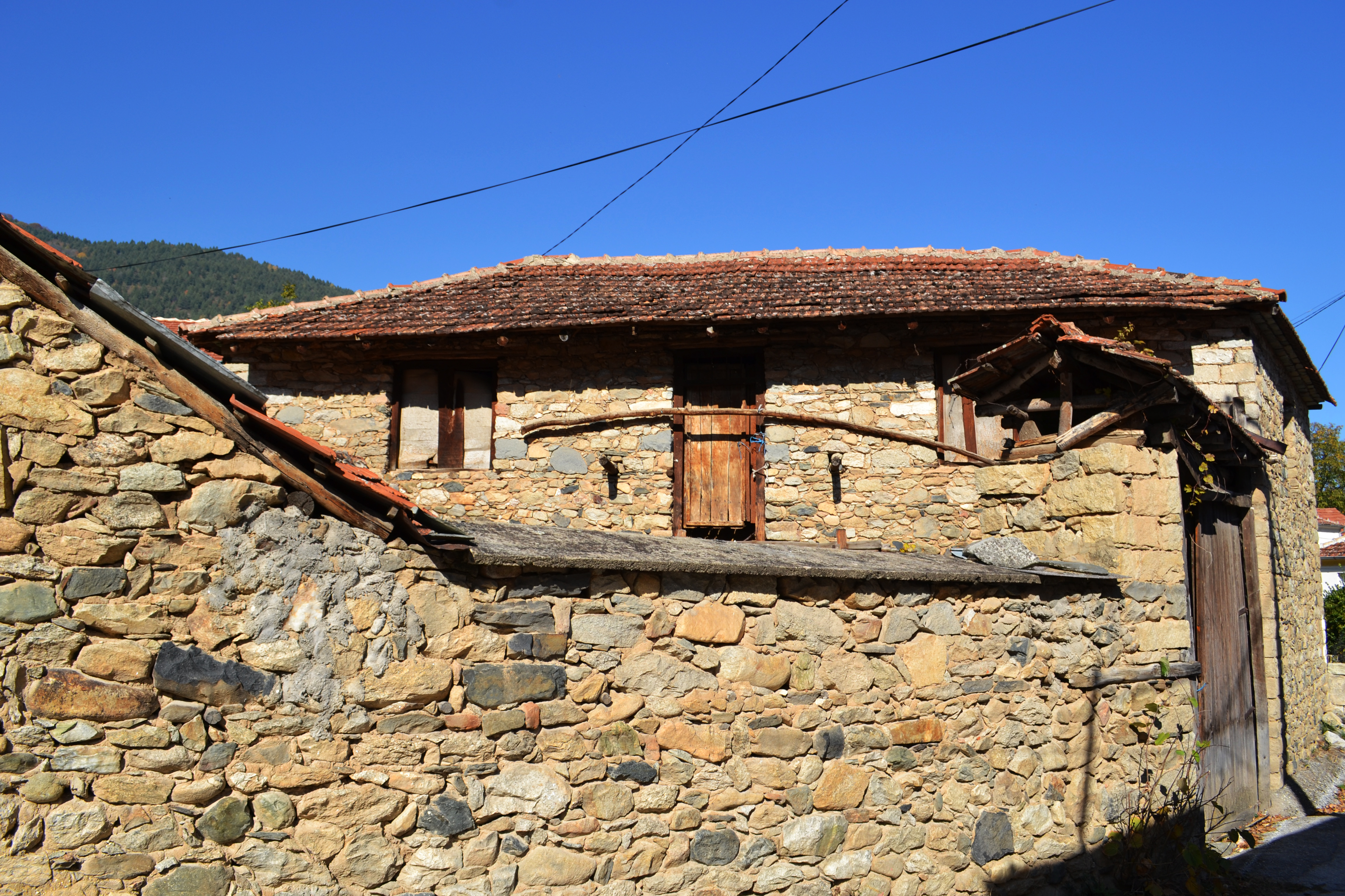 House in Dihovo village near Bitola, Macedonia